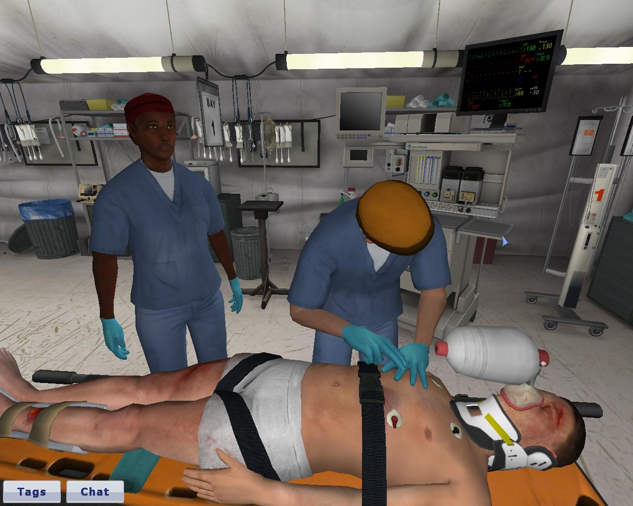 A screenshot from the 3DiTeams game, player is percussing chest Source: Duke University Human Simulation and Patient Safety Center. Archived here